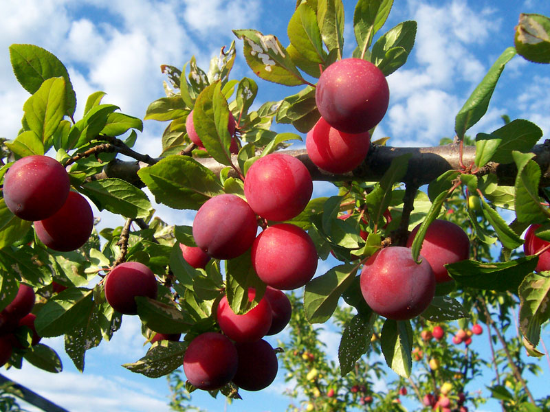 Plums hanging off the tree